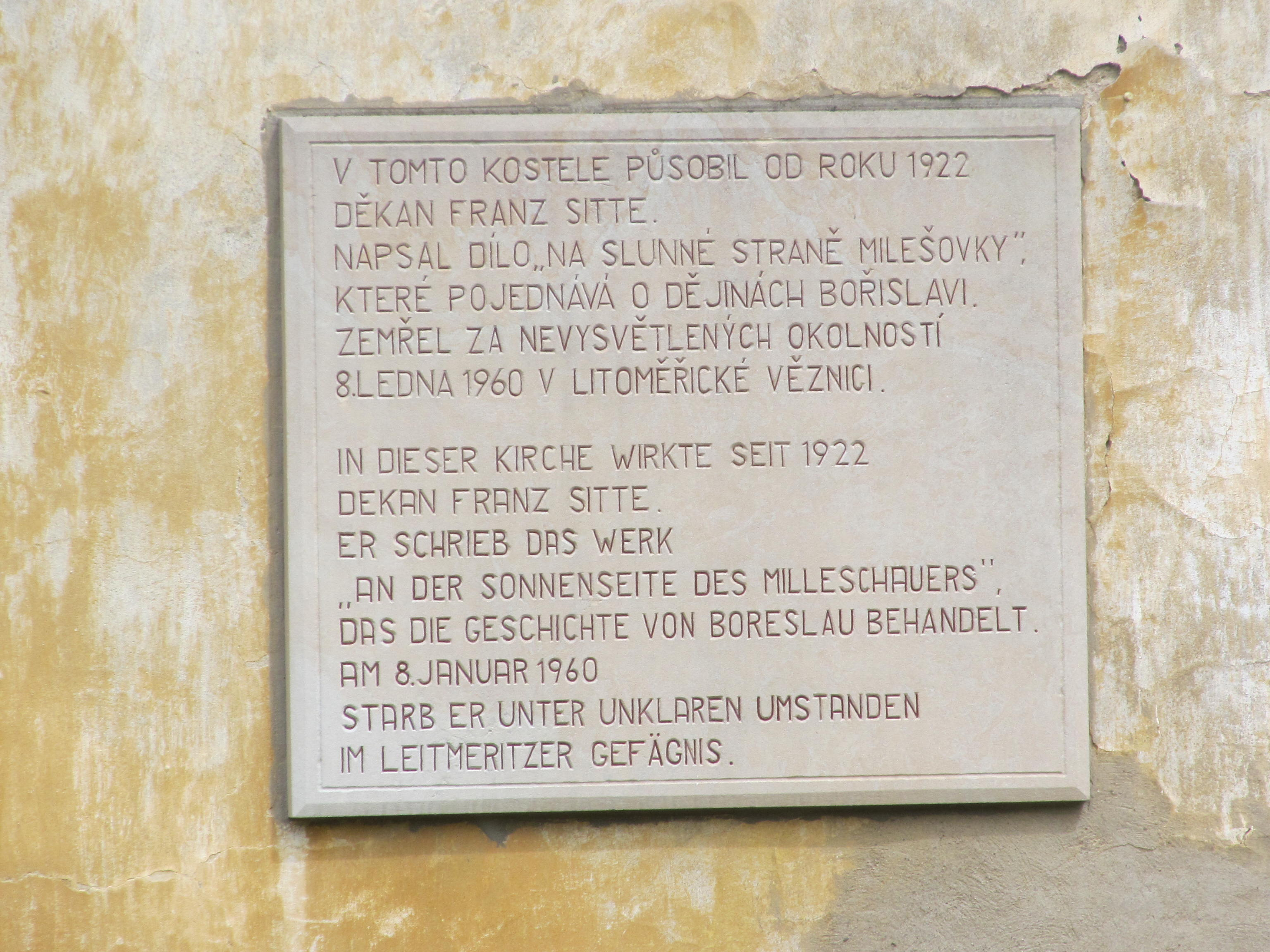 Memorial Plaque of priest Franz Sitte on the church in Bořislav